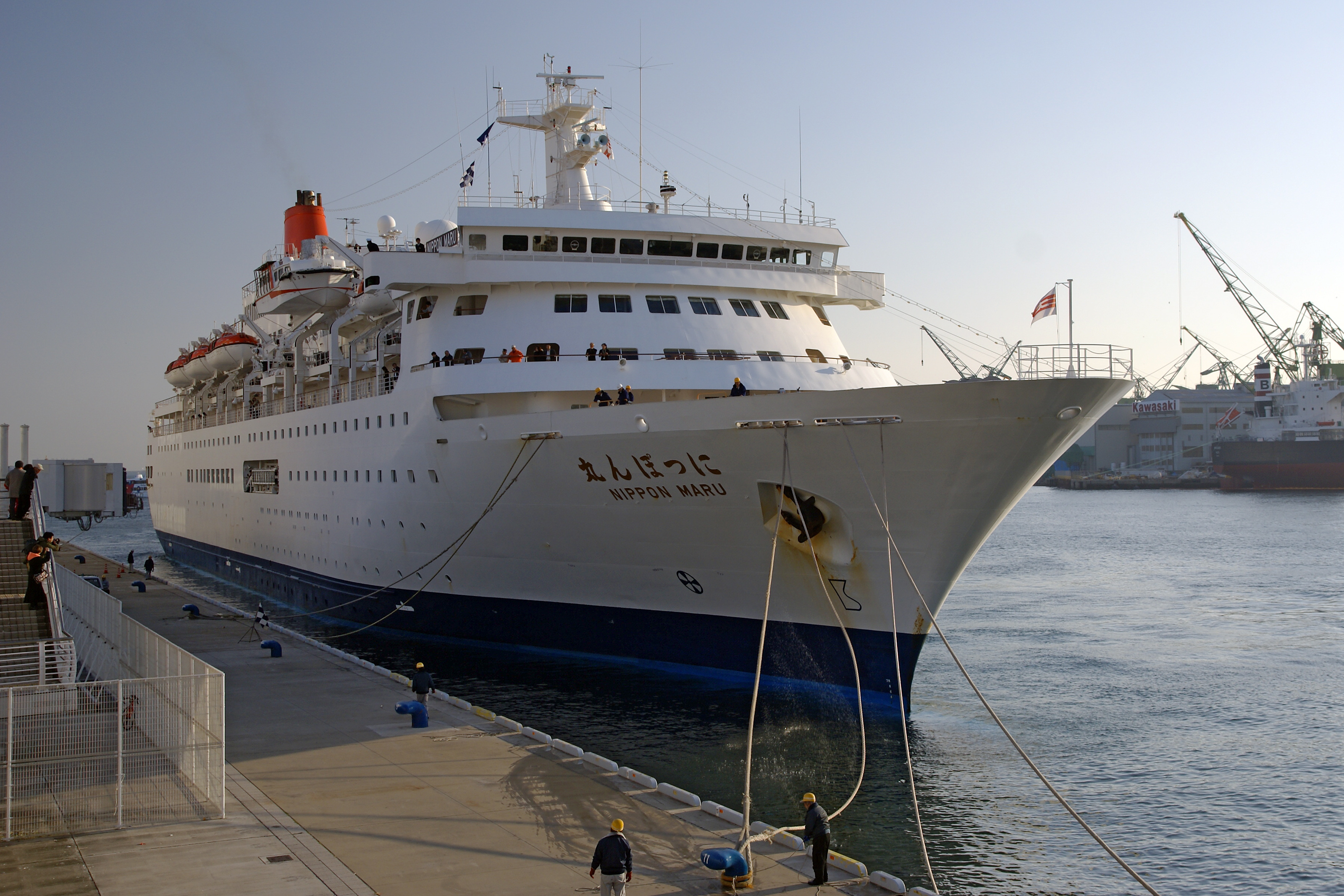 "Nipponmaru" who anchors at "Nakatottei" of the Kobe harbor ( Kobe, Hyogo prefecture, Japan)